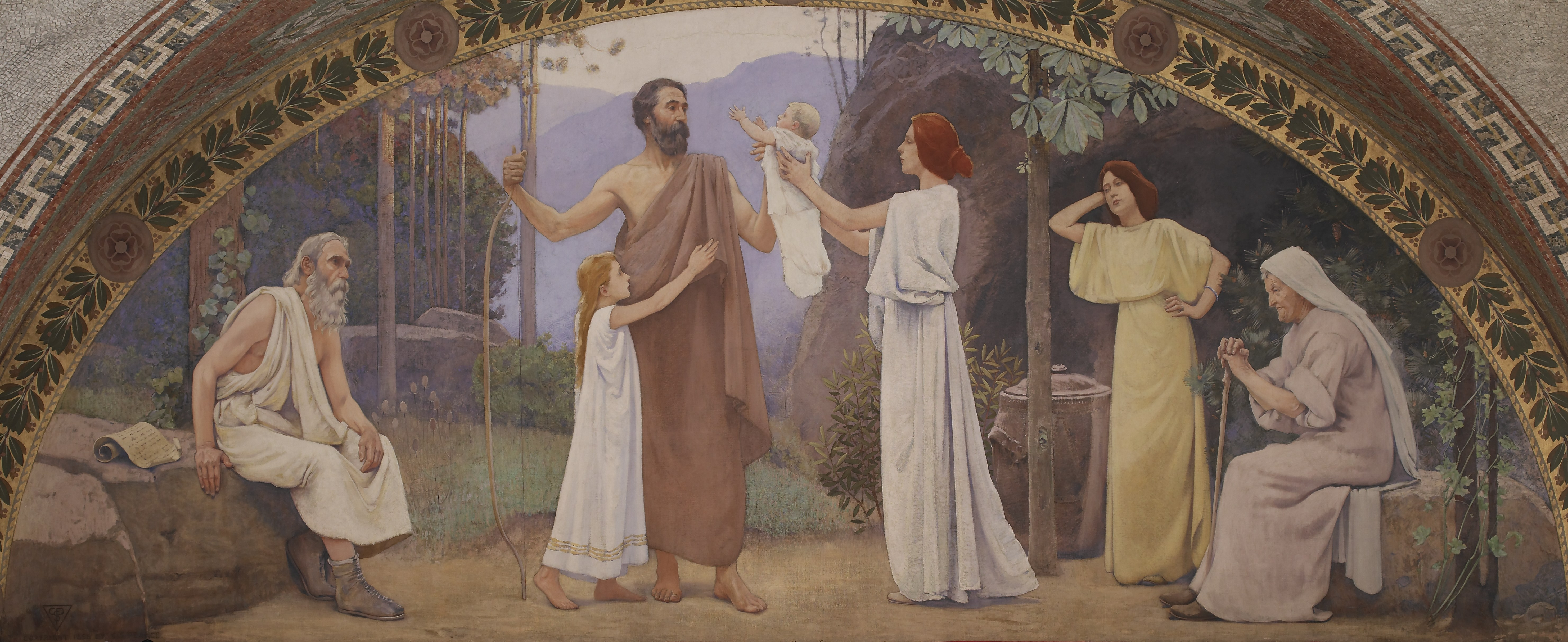 Family. Mural in lunette from the Family and Education series by Charles Sprague Pearce. North Corridor, Great Hall, Library of Congress Thomas Jefferson Building, Washington, D.C. Mural contains artist's logo and "COPYRIGHT 1896 BY C.S.PEARCE".